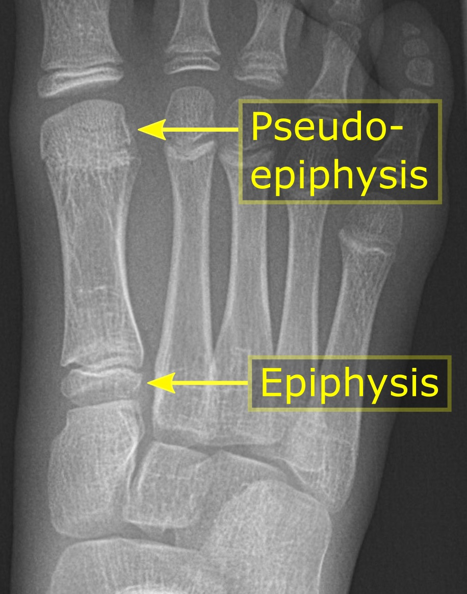 Projectional radiograph of the foot of an 11 year old boy, showing a usual proximal epiphysis, as well as a pseudo-epiphysis.